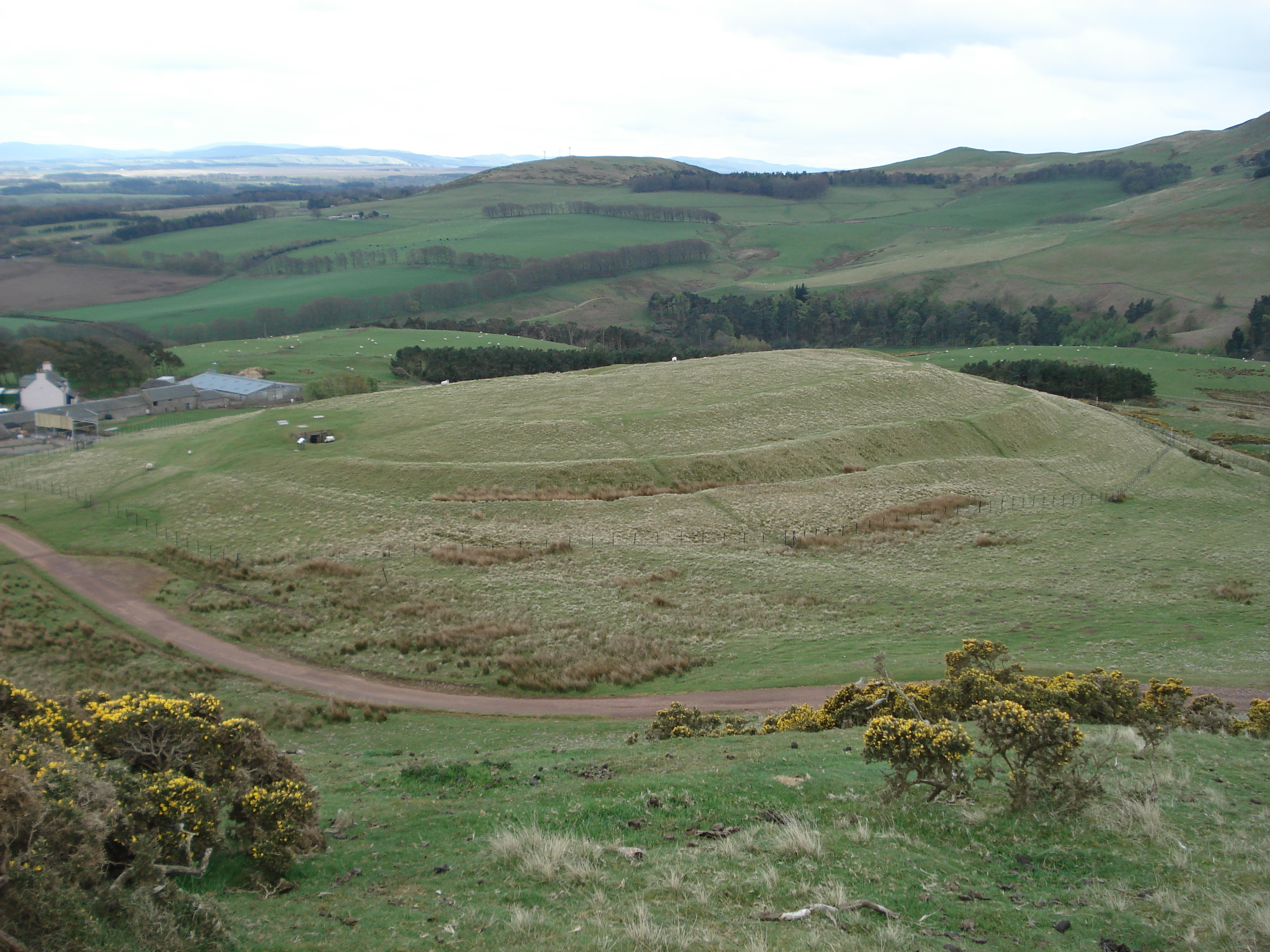 Castlelaw Hill Fort, Midlothian. The remains of the fort are viewed from a neighbouring height.